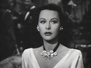 Cropped screenshot of Hedy Lamarr from the trailer for the film The Conspirators.